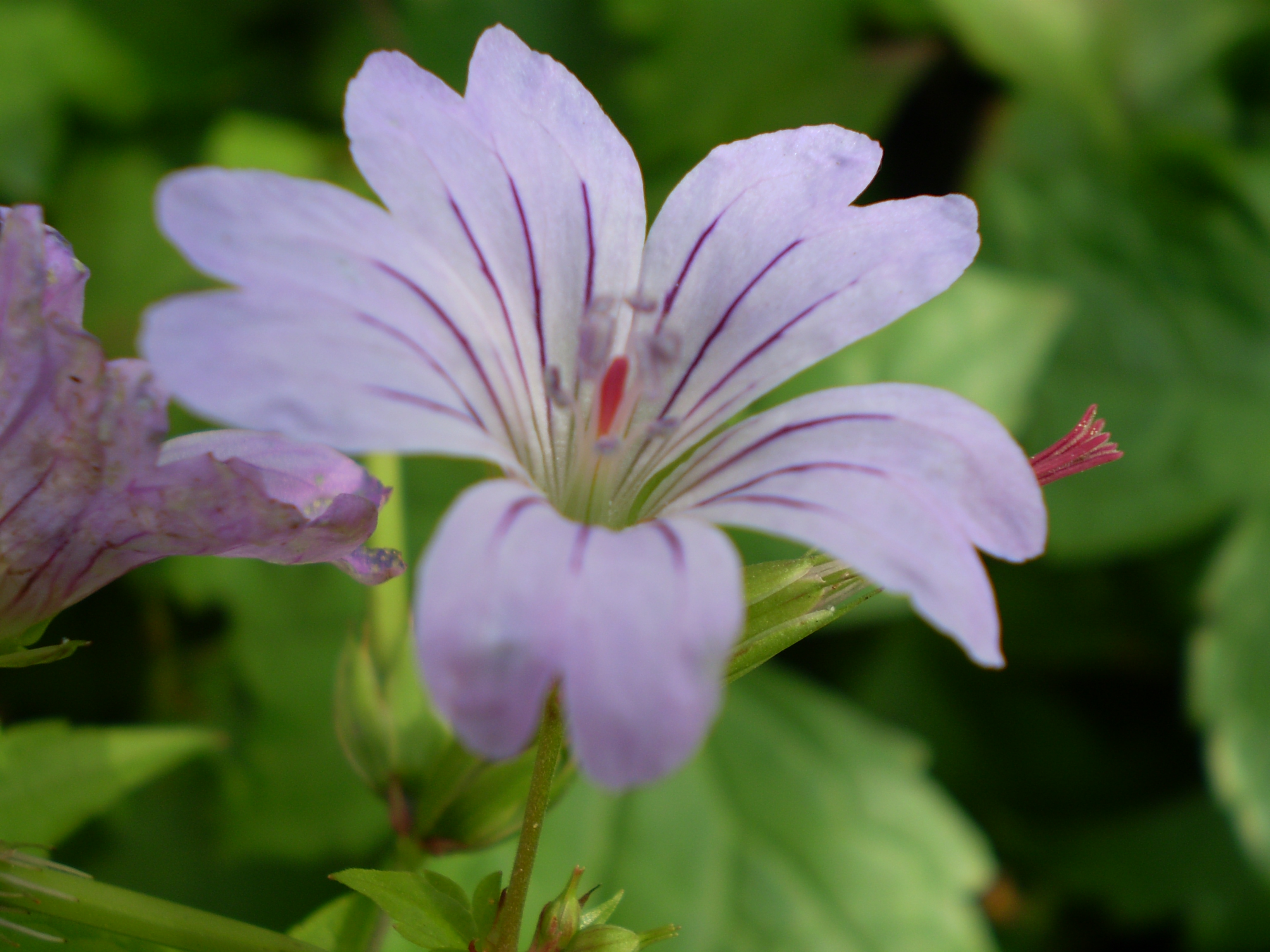 Unidentified Geranium - who knows?